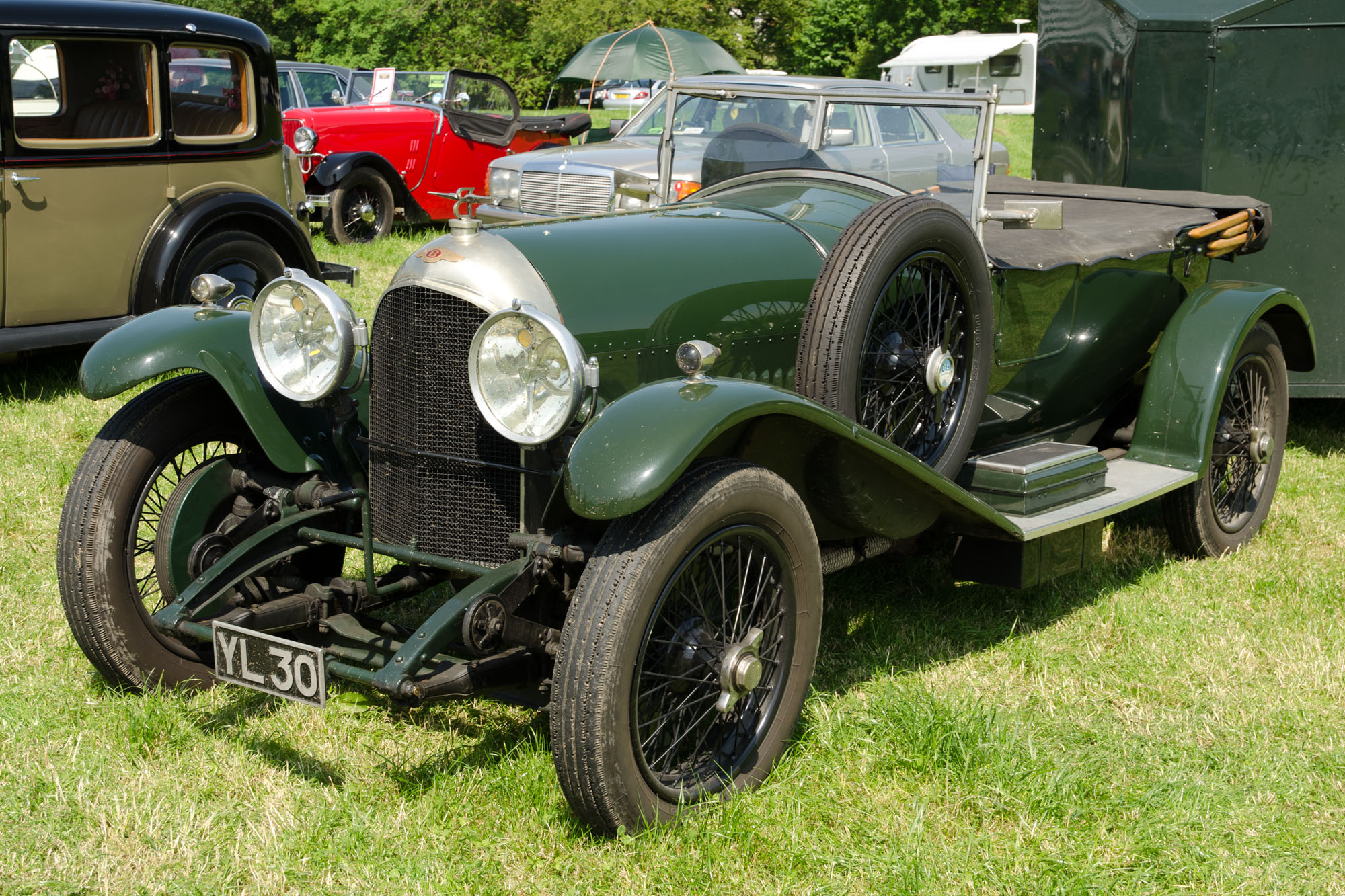 Bentley 3-Litre Speed open tourer 1925 Chassis 1219 wheelbase 9' 9½' Engine 1194 high compression, twin SU carburettors Reg YL 30 delivered October 1925 original body by Gurney Nutting (type not known) Source of data—Vintage Bentleys Heskin Hall Steam Fair 31 May 2014